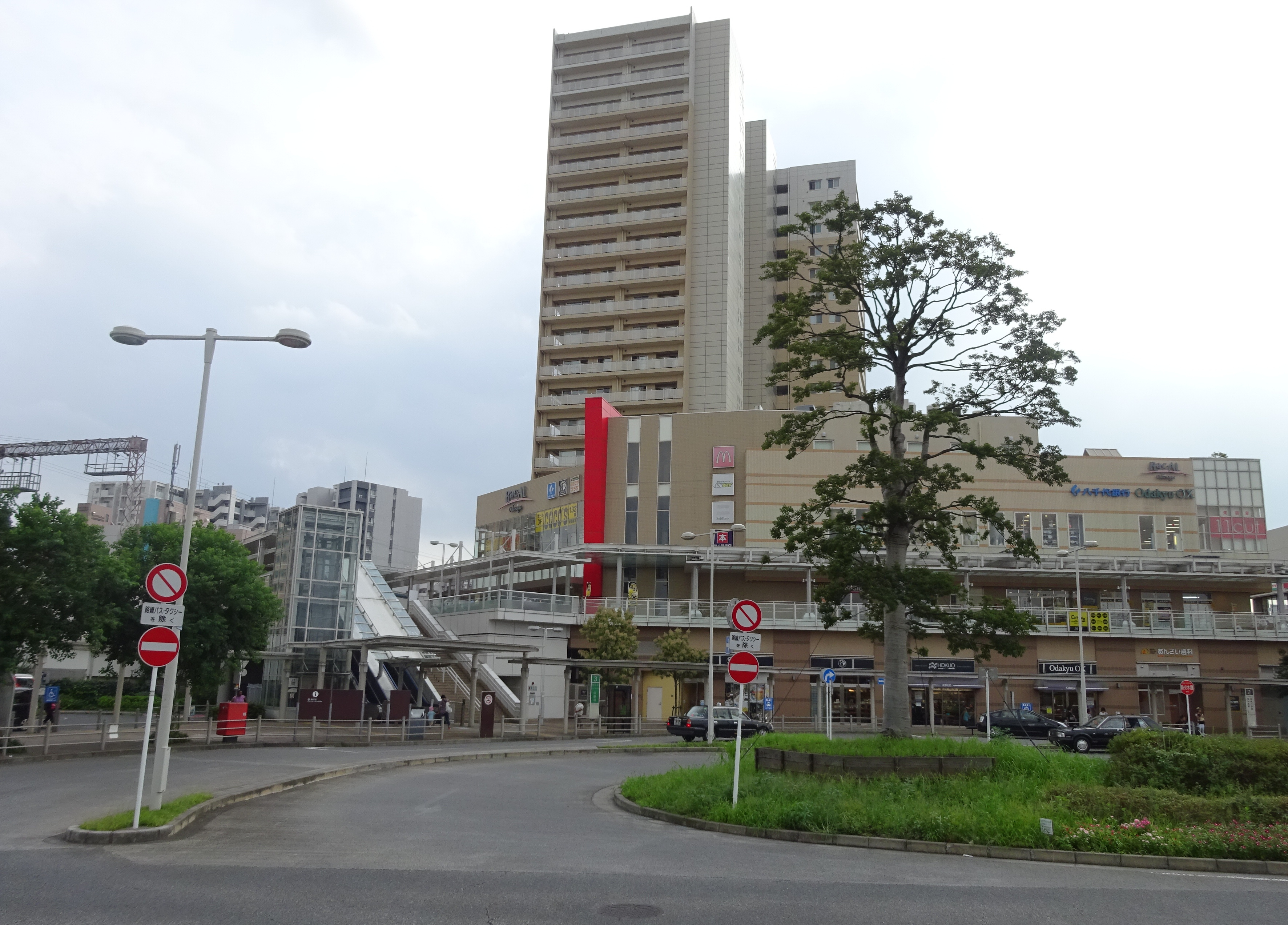 North entrance of Odakyū-Sagamihara Station